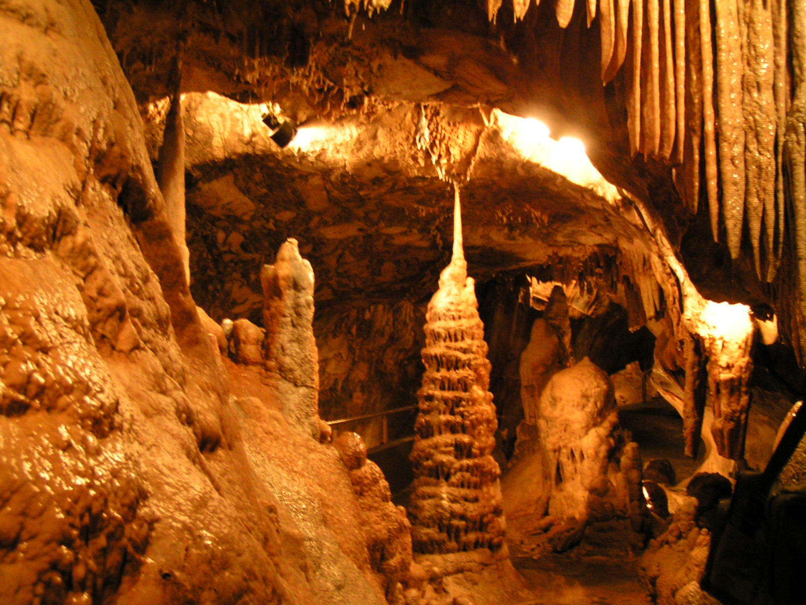 Innenansicht der Kaiserhalle in der Dechenhöhle : A view of the "Kaiserhalle" in the stalactite cave Dechenhöhle Source: own work Date: Jan 2005, Iserlohn, Germany Information: It was not forbidden to take photos in the cave at this time Author: Maschinenjunge Licence: GFDL, cc-by 3.0